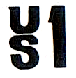 The US1 sailboat class badge.